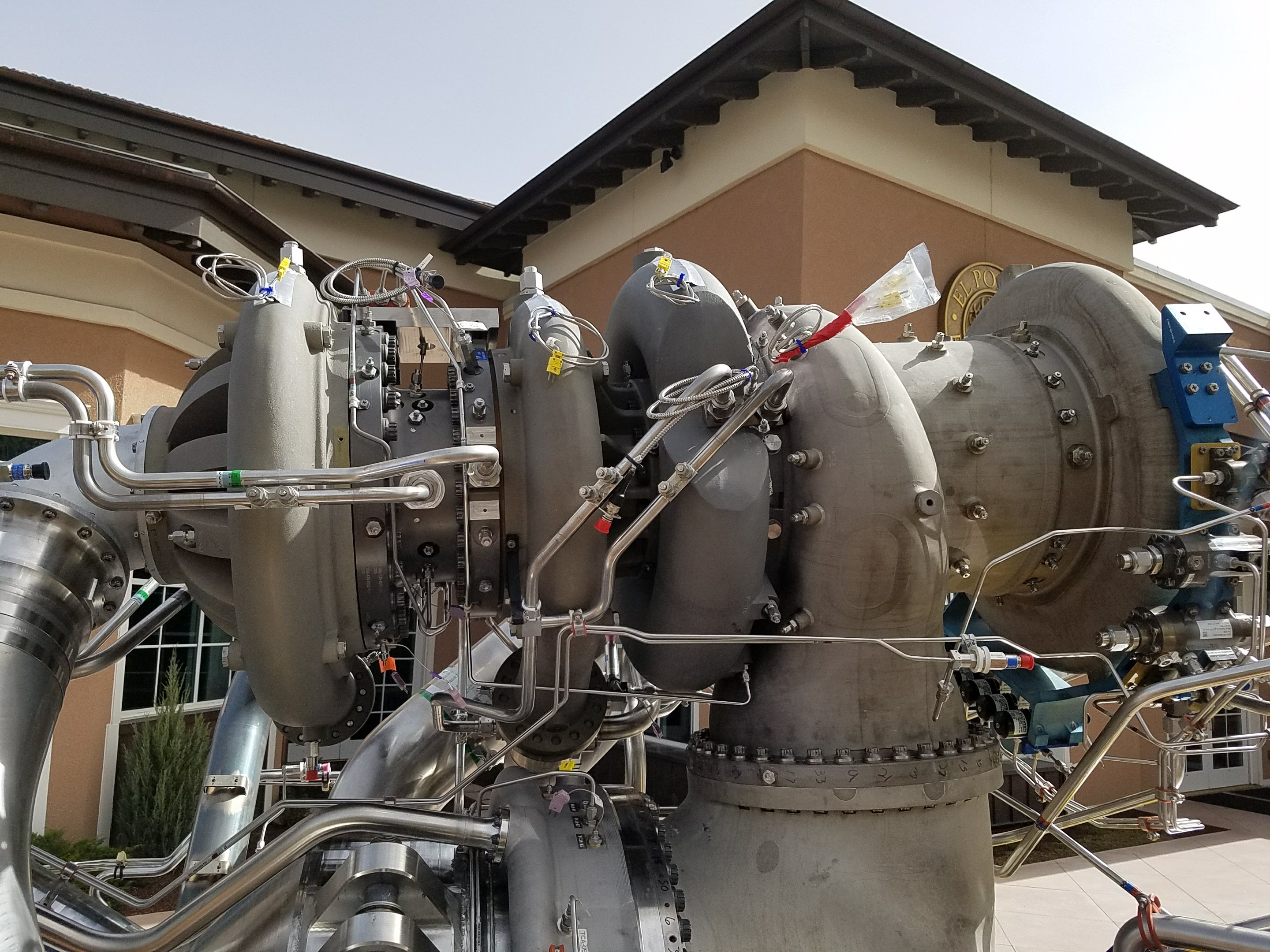 BE-4 methalox rocket engine, closeup of powerhead. From the engine that was originally serial number 101, manufactured in Kent, Washington during October 2017. It was the first BE-4 engine to be hotfire tested, on 18 Oct 2017. It was subsequently hotfire tested, disassembled, rebuilt and retested several times to its current iteration in this photo, noted on an adjacent placque as SN 103.